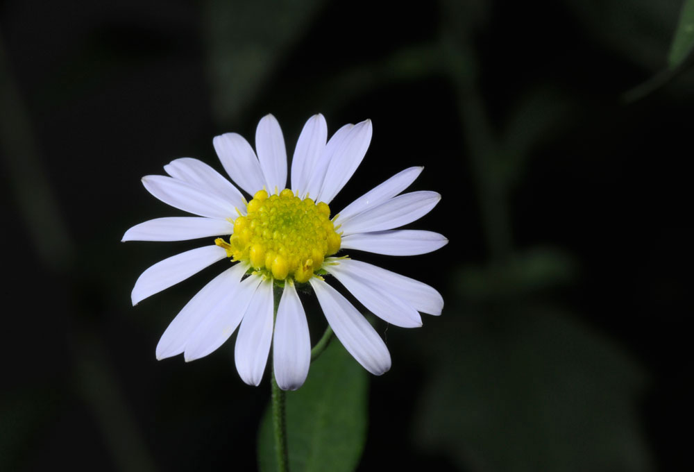 Inflorescence of Kalimeris indica